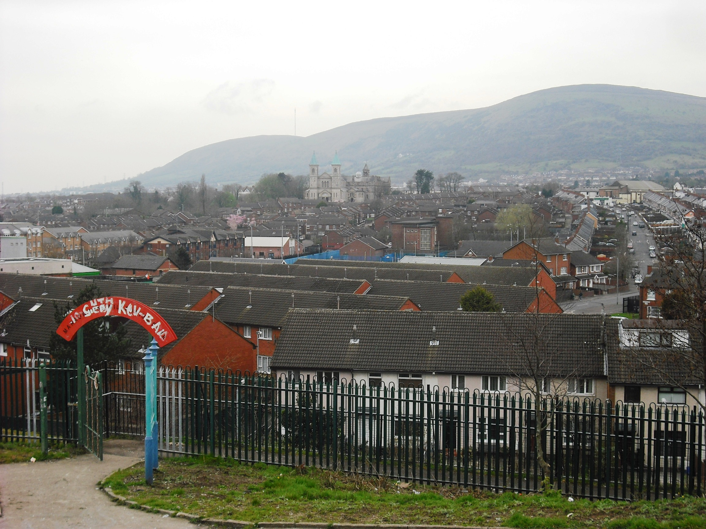 Panoramic view of the streets in the Ardoyne area, taken from Marrowbone Millennium Park on the Oldpark Road, Belfast